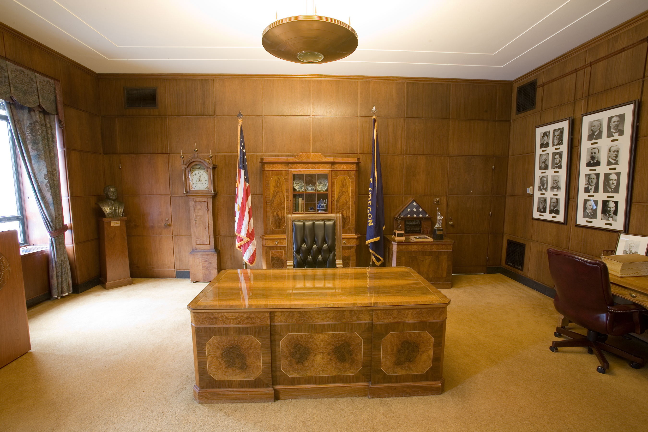 The desk of the Governor of Oregon.